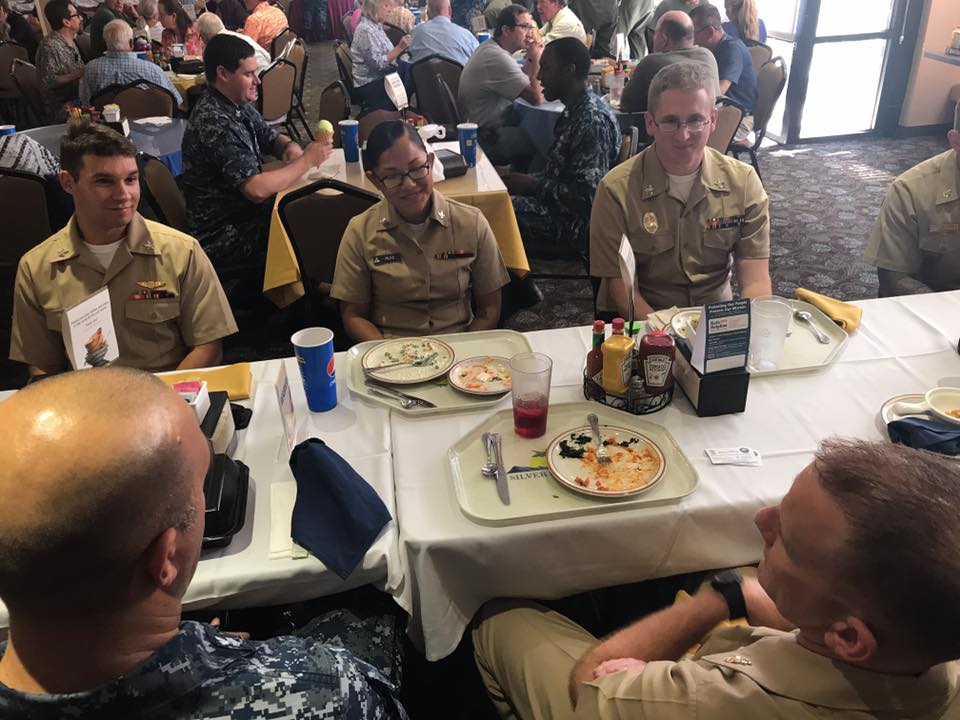 2017-07 - MCPON Giordano at NAS Fallon